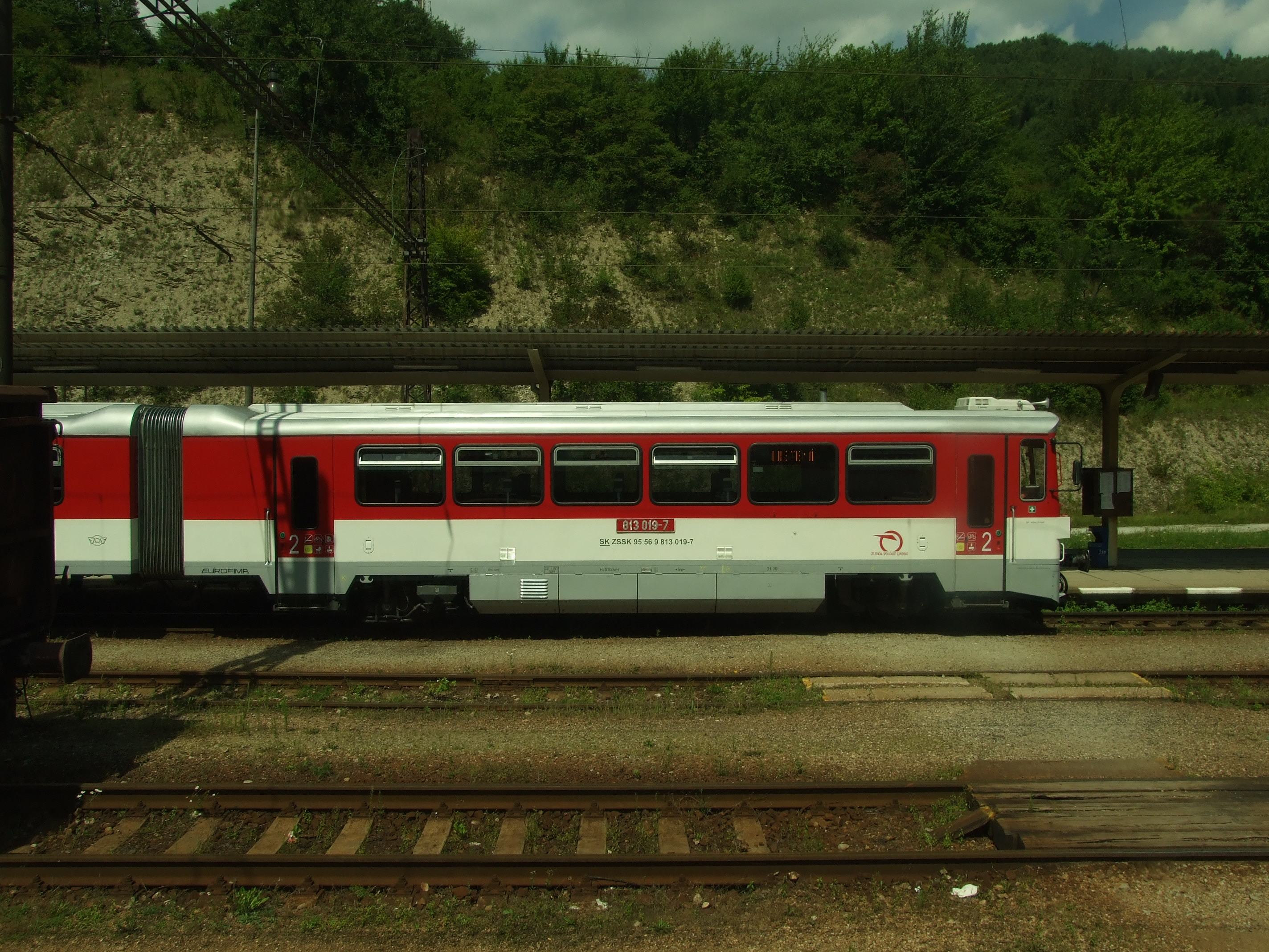 Diesel multiple unit class train in Kraľovany station, SKhelp